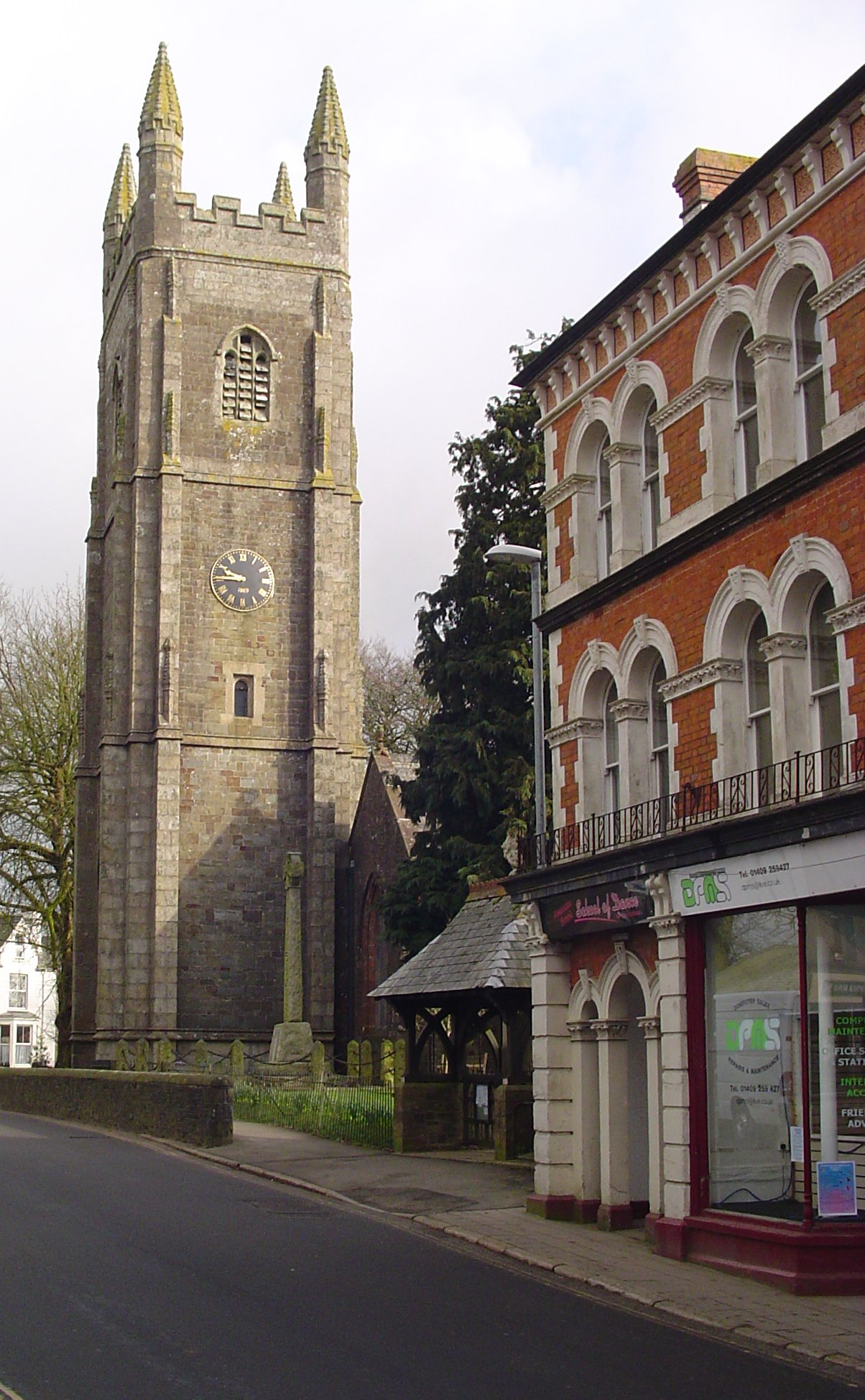 Holsworthy Church